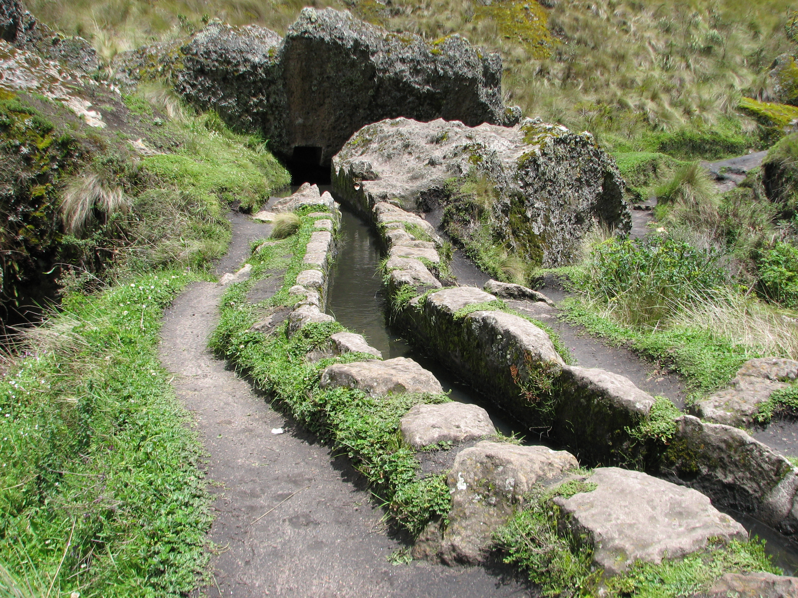 Cumbe Mayo Archaeological site (aqueduct)